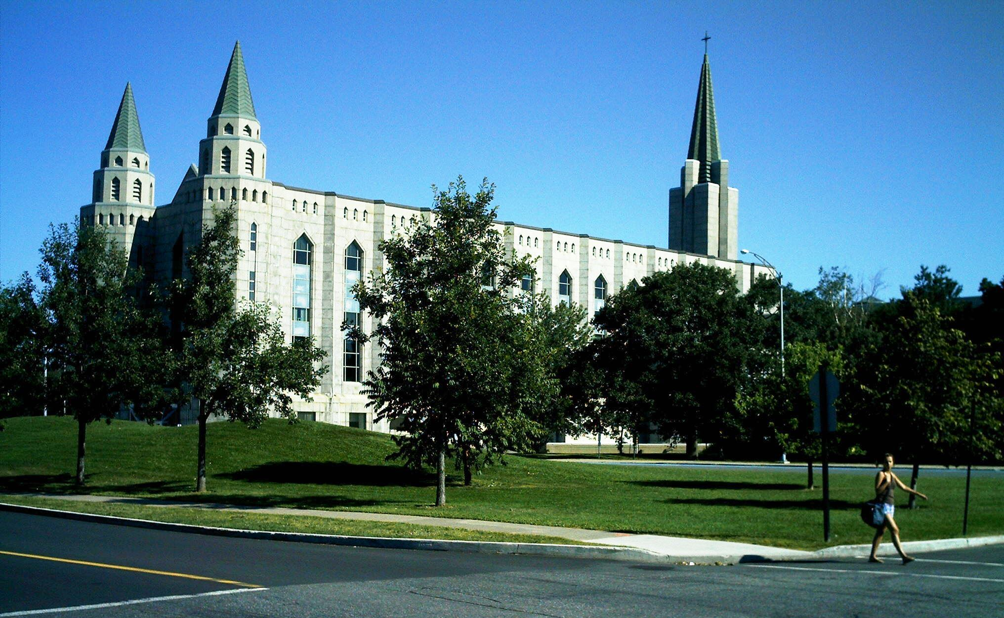 Laval University, Quebec City